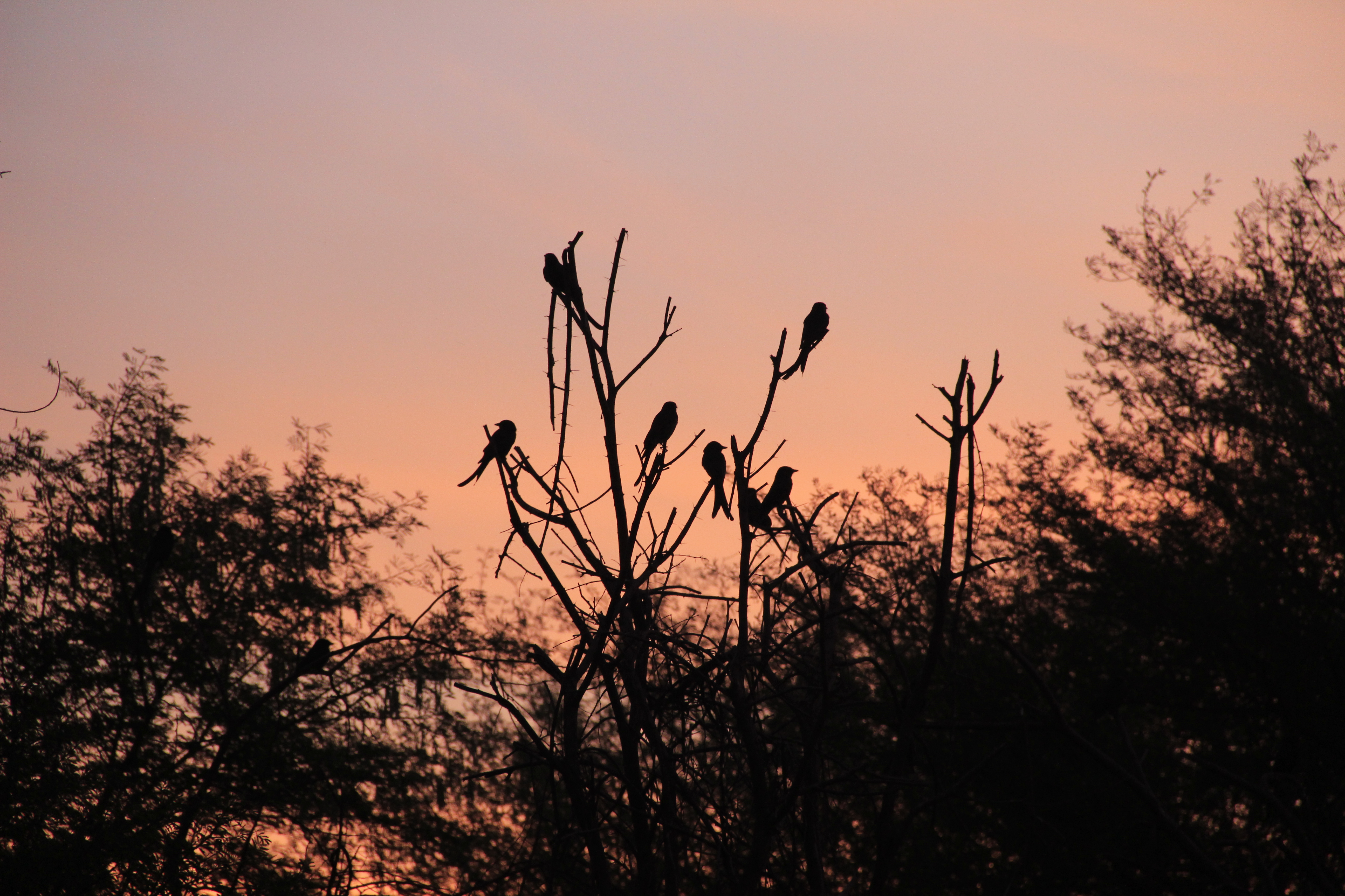 Black Drongos Dicrurus macrocercus at Kothaimangalam Wetland